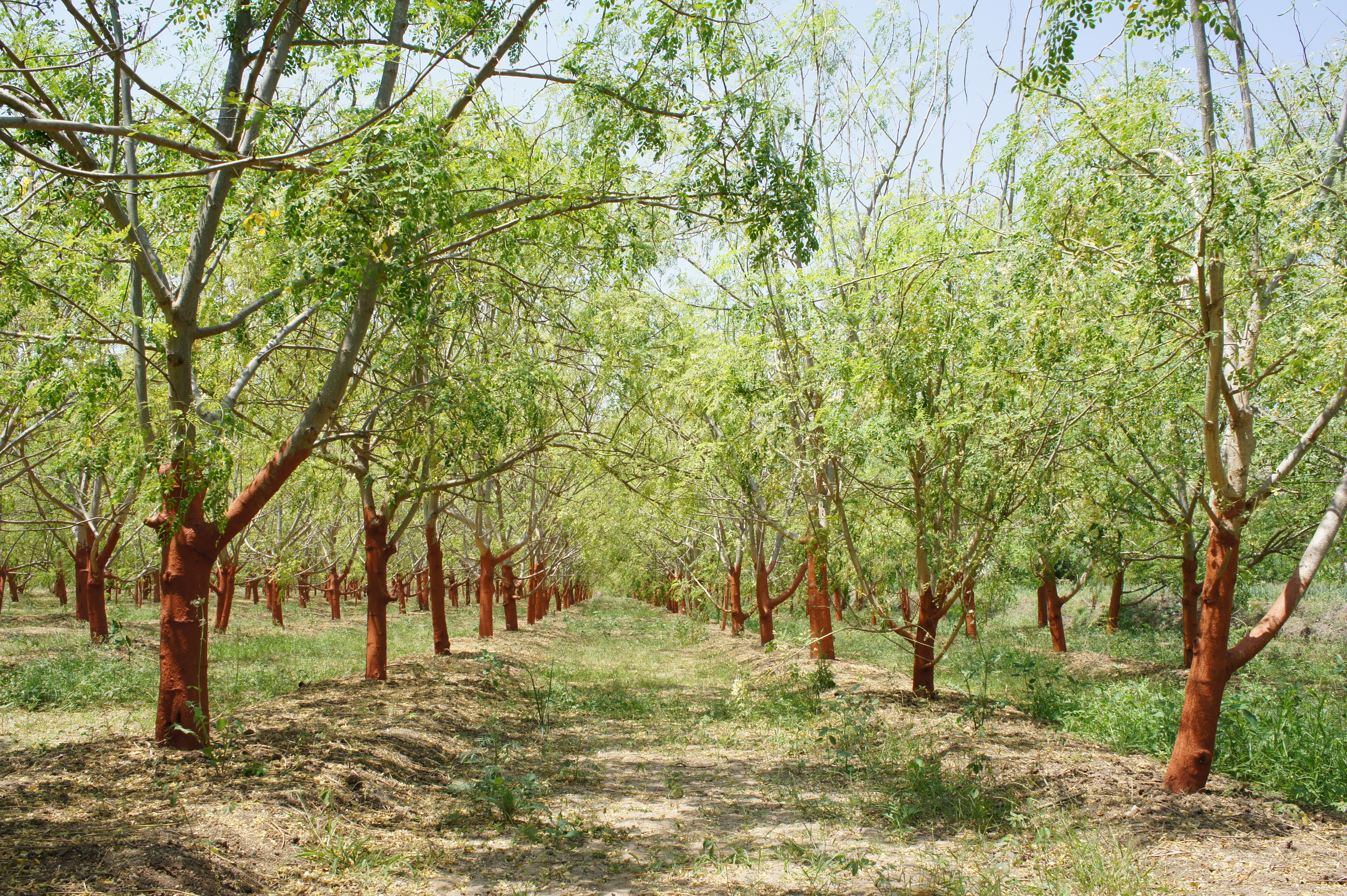 With edible leaves and pods and a variety of other uses, this deep-rooted species is very hardy and often seen in backyard gardens. Good market demand is quite obviously behind the well-managed orchard shown in this photograph. Locality: Maharashtra, India.